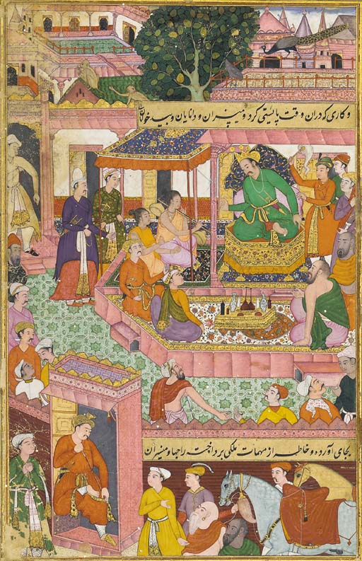 Rama's twin sons Lava and Kusha performing Valmiki's epic before Rama and his court Mughal India, 1594 AD Folio 453 verso (p. 906), Gouache heightened with gold on paper, Rama seated on a throne beneath a canopy with his two sons dressed as sadhus attended by courtiers, a group of figures standing in the foreground by the gate, two lines of black nasta'liq text within panels, verso with 18ll. of text within red and gold outlines Miniature 14 x 87/8in. (35.4 x 22.6cm.); text area 9½ x 5½in. (23.7 x 13.8cm.)